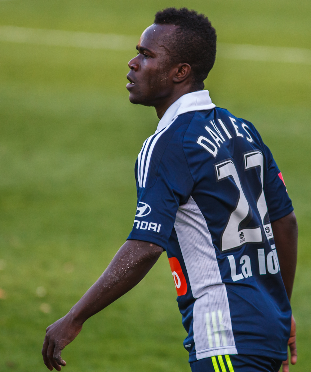 Julius Davies playing in a pre-season game between the Central Coast Mariners and Melbourne Victory on 16/09/2012.